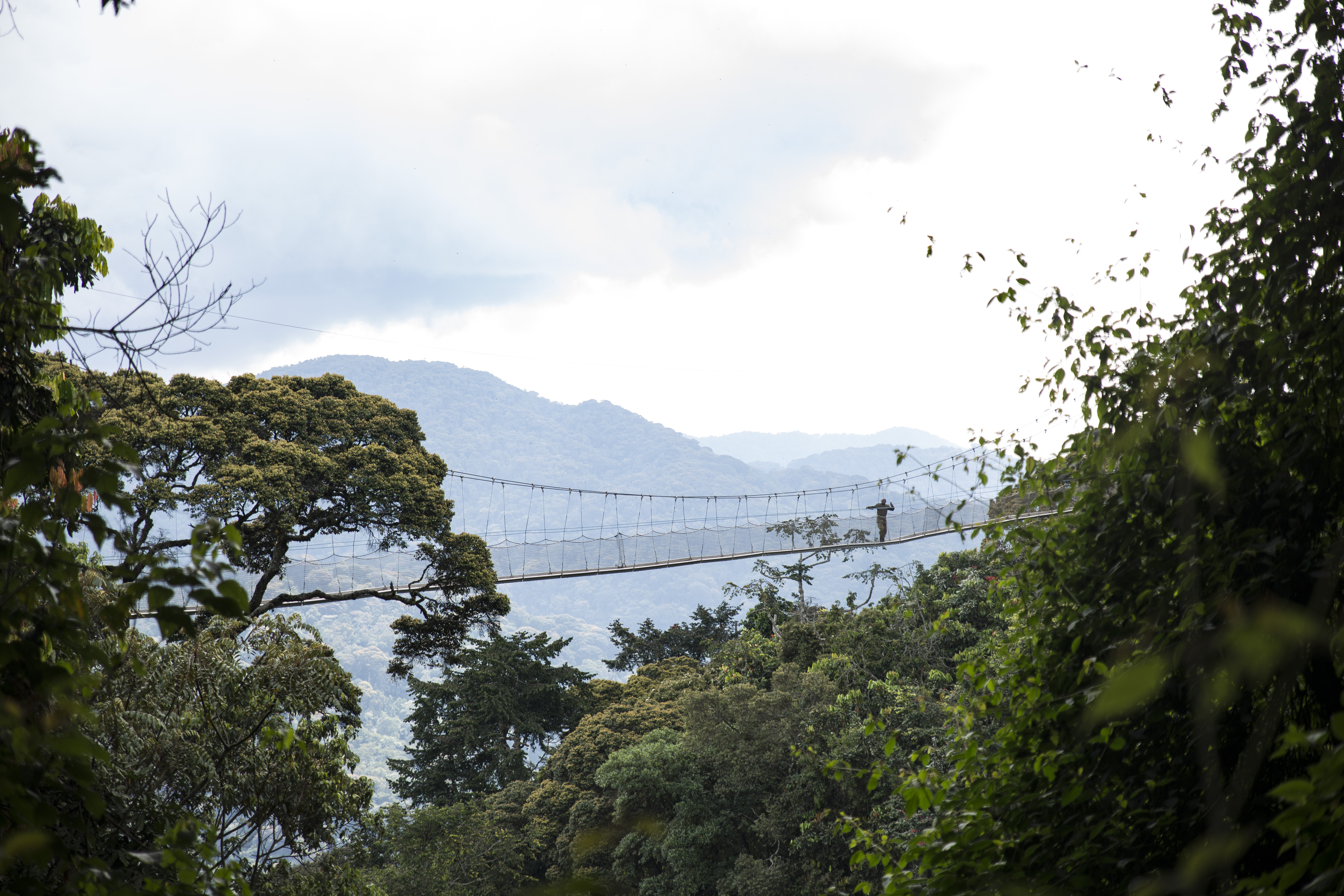 This is an image with the theme "Africa on the Move or Transport" from: Rwanda